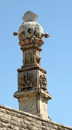 This is the unique baan-stambh (arrow-pillar) at the famous Somnath Temple in the state of Gujrat in India.It stands at a point on the Indian landmass, which happens to be the first point on land in the north to the southpole on that particular longitude.